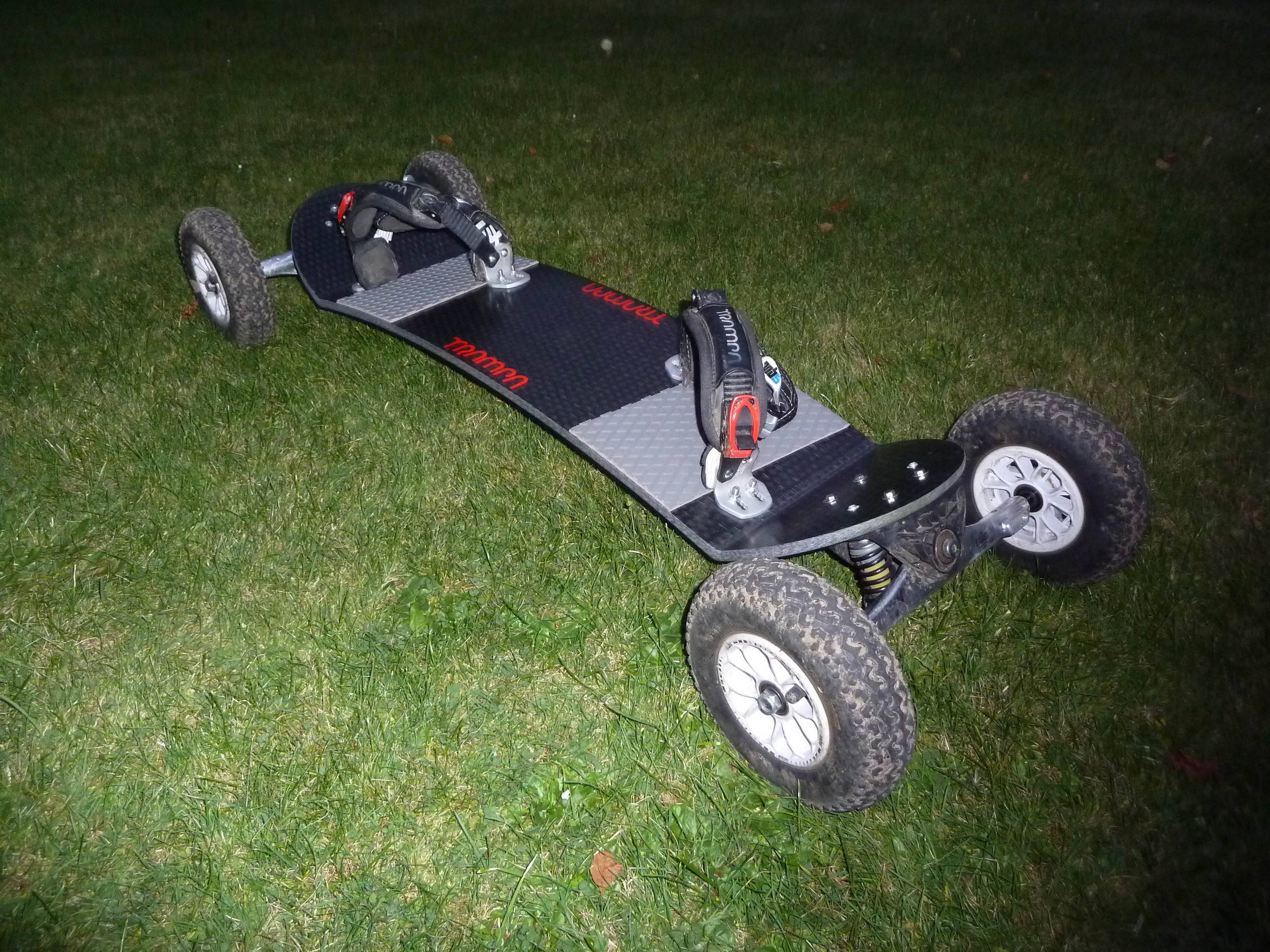 Mountainboard assembled from both MBS and Trampa components